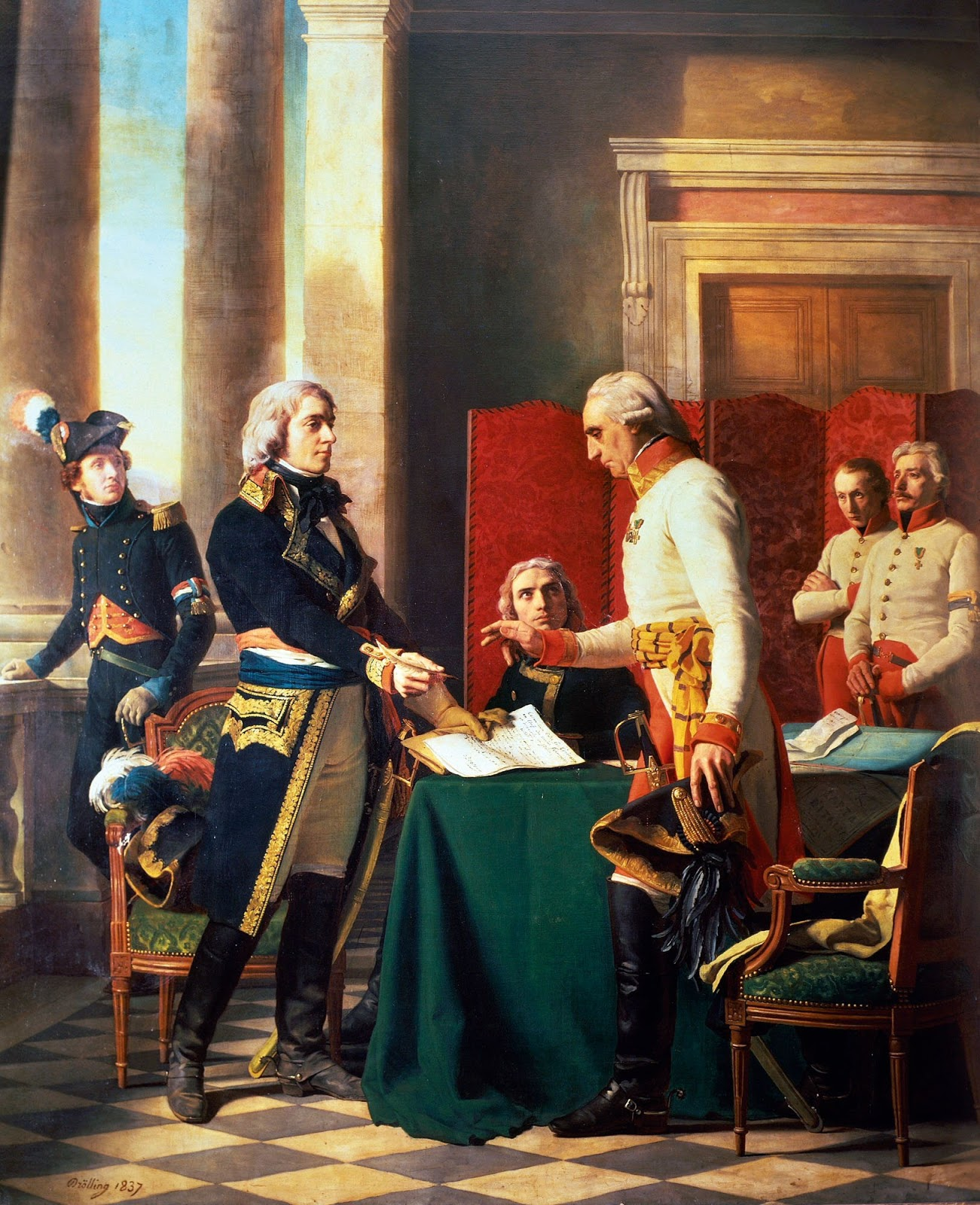 The signing of the Convention of Alexandria by Michel-Martin Drolling (1786-1851)